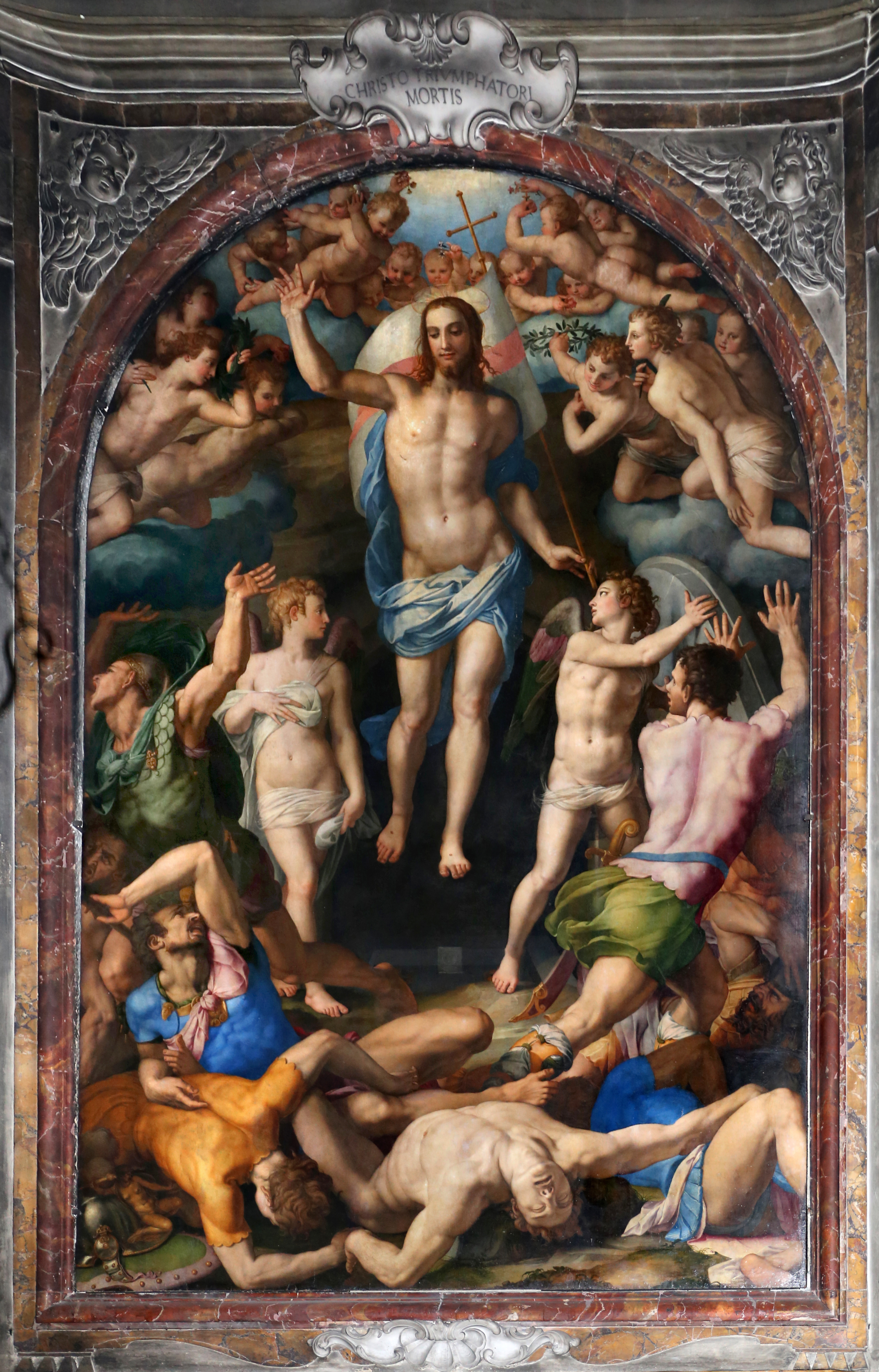 Santissima Annunziata (Florence) - Resurrection Chapel